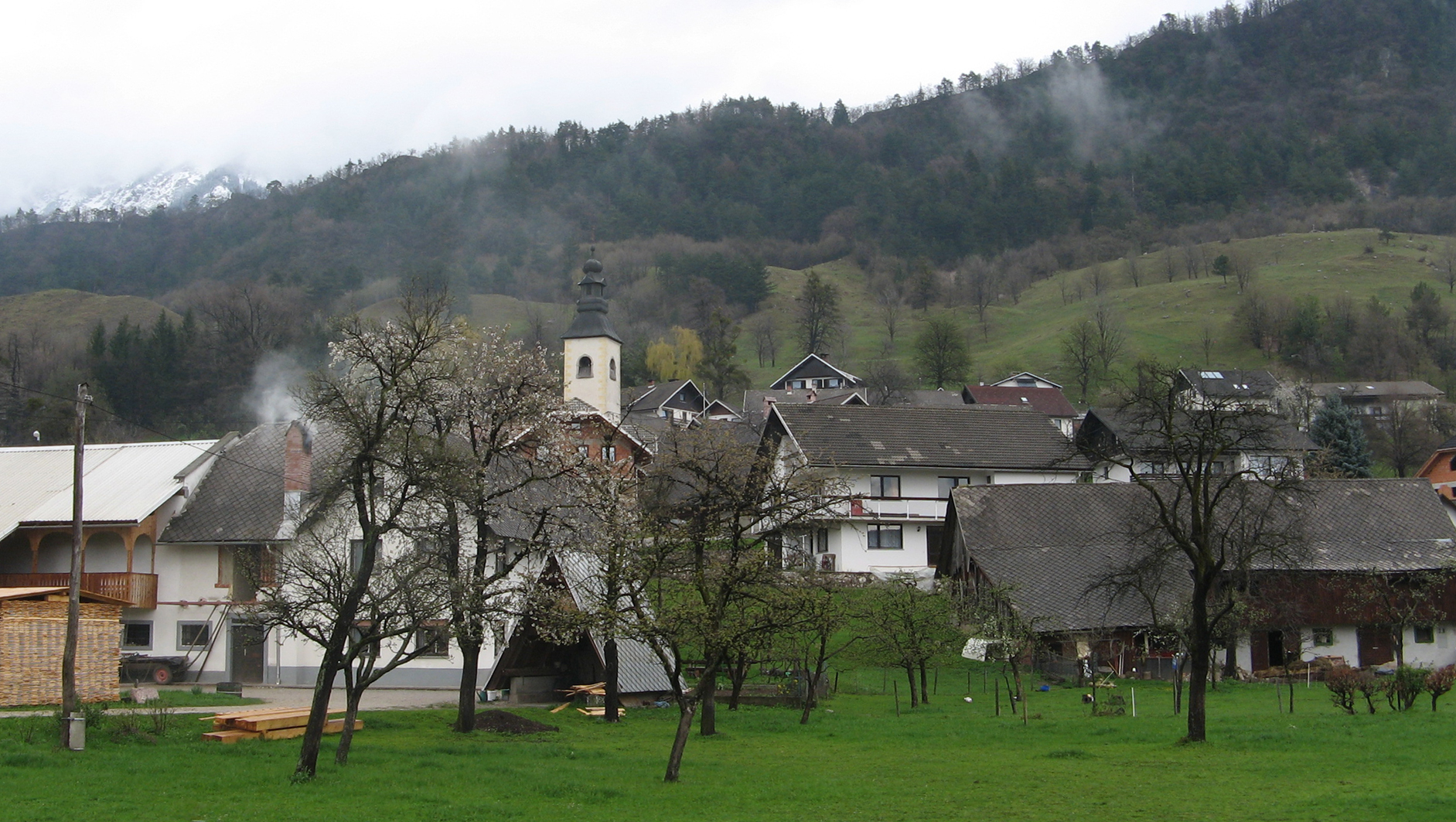 Selo near Žirovnica, Slovenia